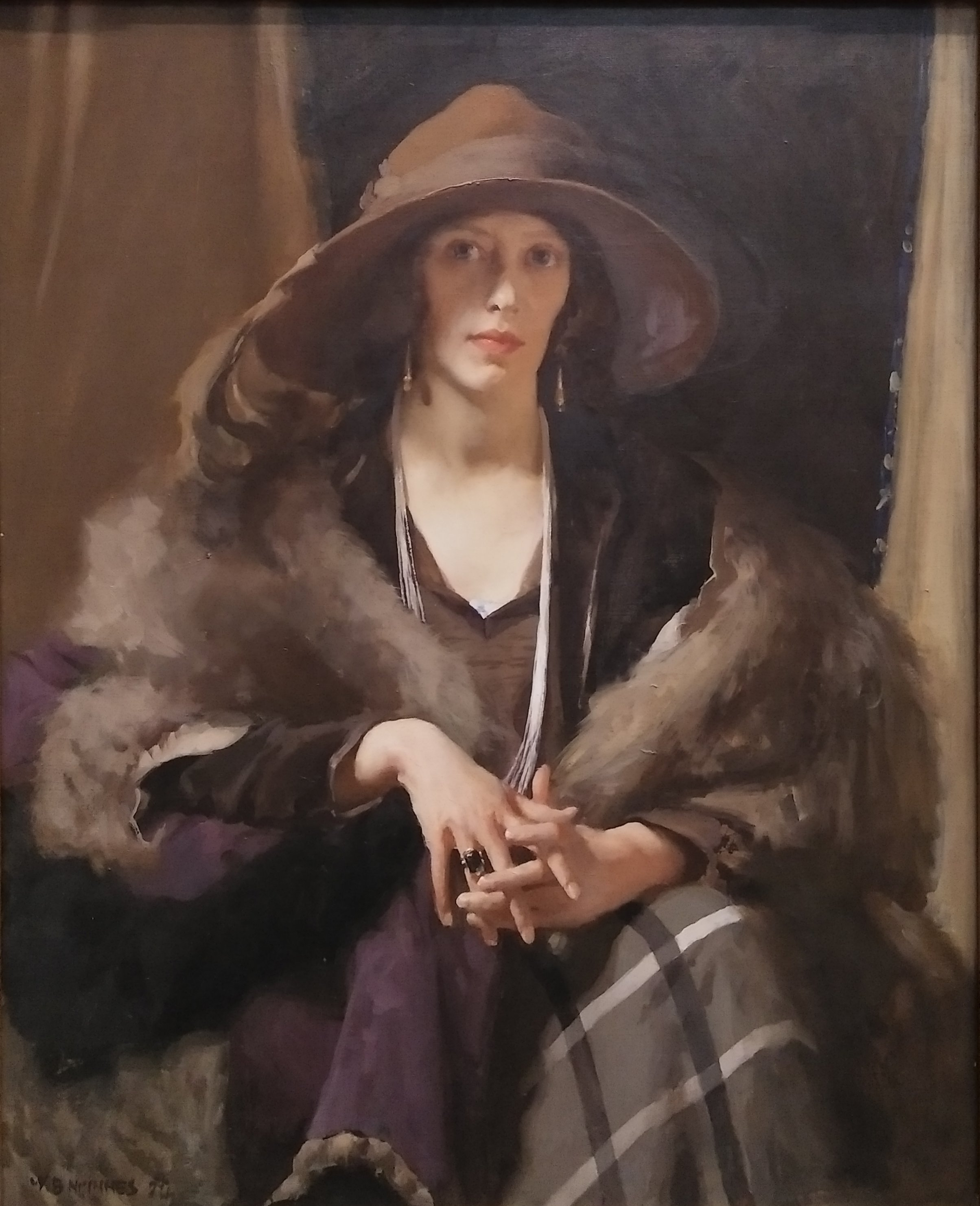 Miss Collins by W.B. McInnes (1889-1939) - Winner 1924 Archibald prize.